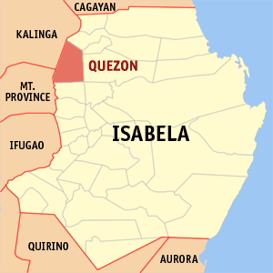 Map of Isabela showing the location of Quezon